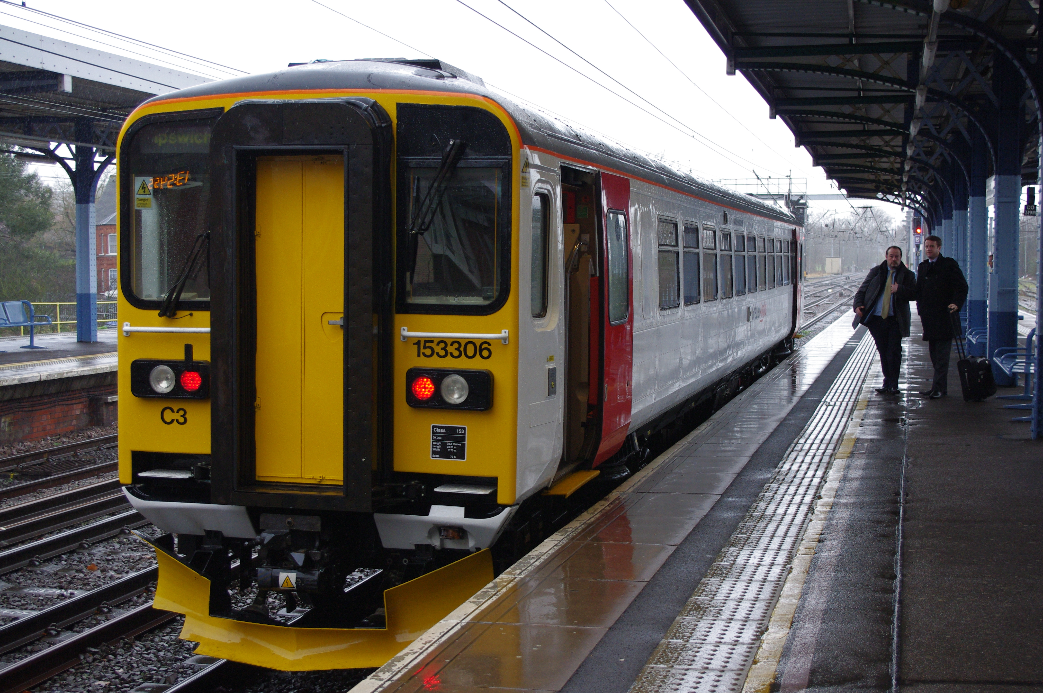 153306 back at Ipswich terminating 2R17, the 13:28 Felixstowe to Ipswich service.